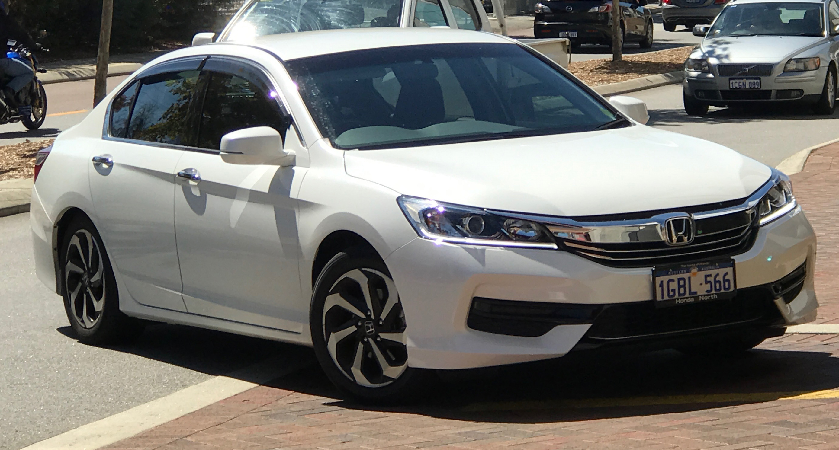 2016 Honda Accord (MY16) VTi sedan. Photographed in Claremont, Western Australia, Australia.